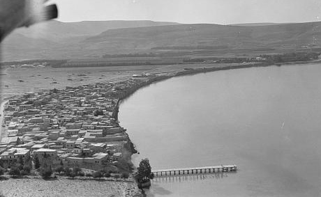 Samakh, Palestine (cropped picture)